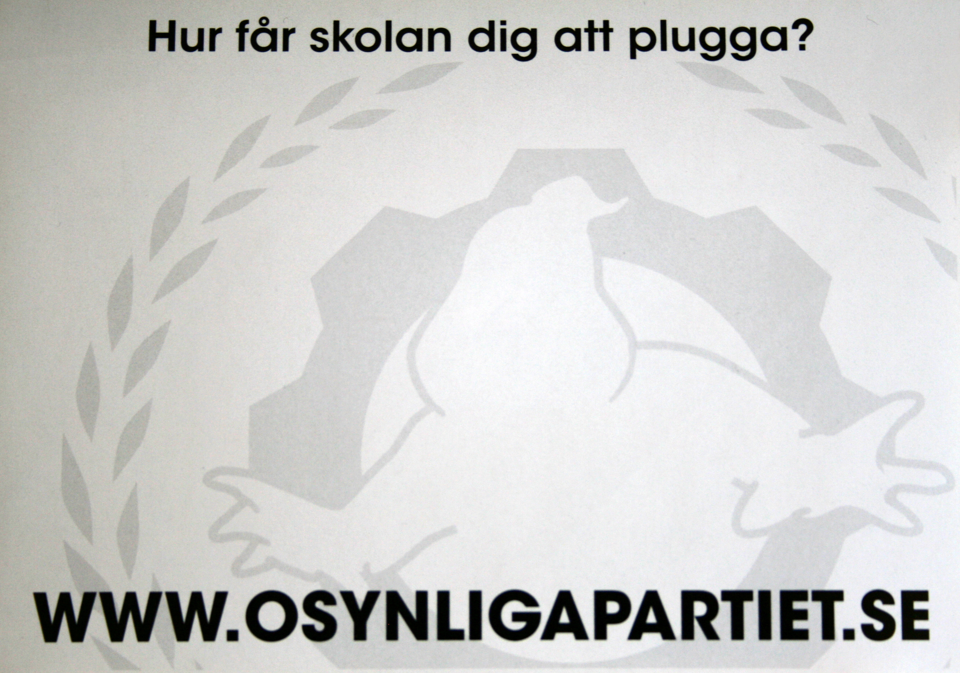 Sticker by the left wing campaign "Osynliga partiet" ("The Invisible Party").